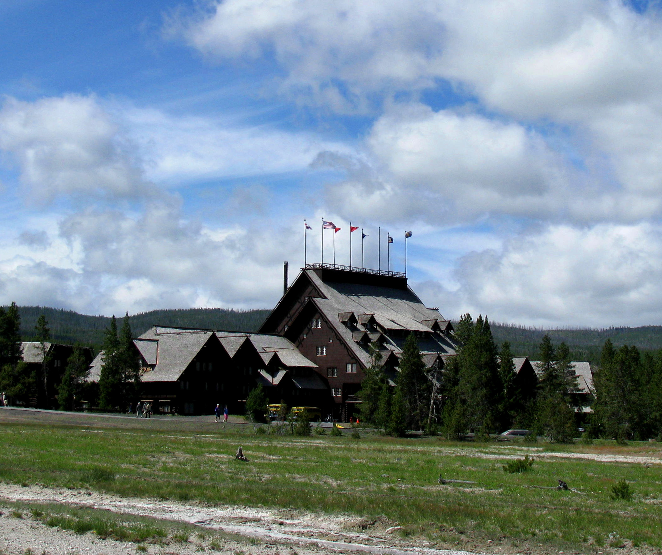 Old faithful Inn at Yellowstone National Park